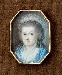 Anna Elisabeth von Spee geb. von Hillesheim (1725-1798), Ehefrau von Ambrosius Franziskus von Spee